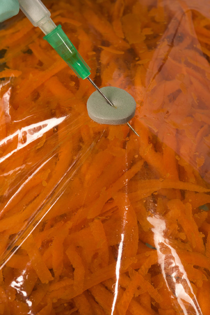 The package atmosphere of shredded carrots is analyzed to determine levels of oxygen and carbon dioxide.